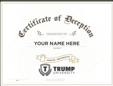 Donald Trump deceived thousands of hard-working men and women looking to make a better live for themselves. In exchange for their support, he promised them they would win. Instead, Trump misled them and left them in debt. from candidate Ted Cruz website